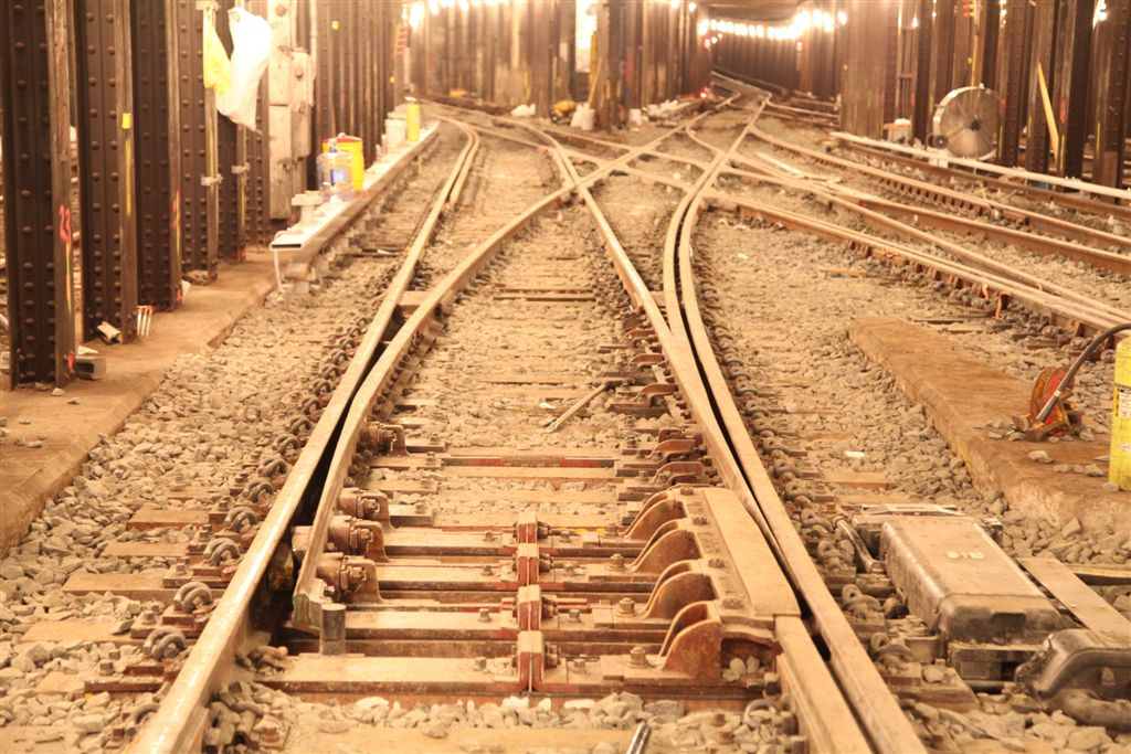 This Labor Day weekend, we repaired tracks and switches near the 179 St station on the F Line in Queens. This photo shows a newly rebuilt switch. Photo: Metropolitan Transportation Authority / Leonard Wiggins.